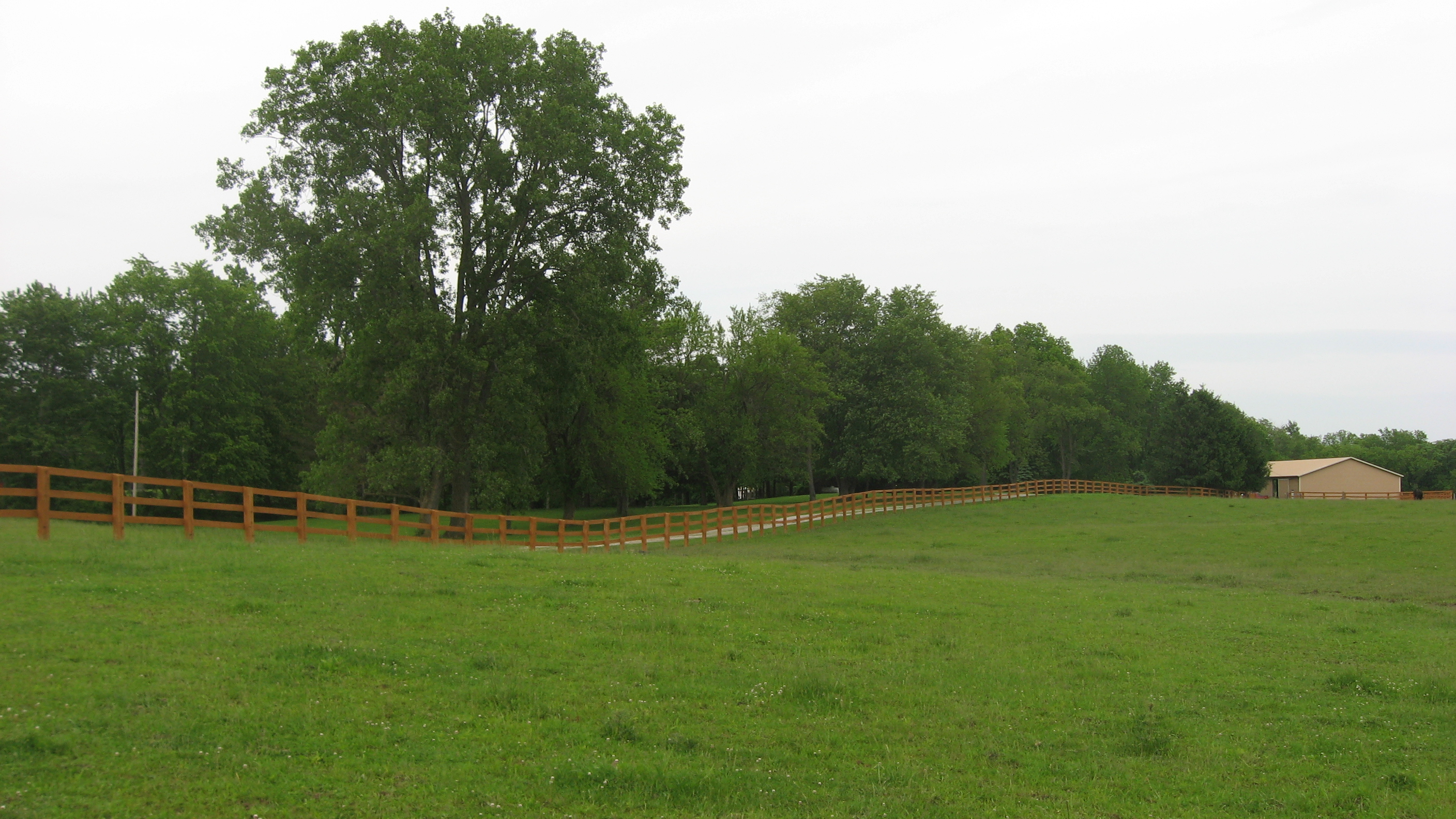 Overview of the vicinity of the site of Wyatt's Tavern and Fort Morrow, along the western side of the Olentangy River north of Norton and south of Waldo in Waldo Township, Marion County, Ohio, United States. The fort-and-tavern site is an archaeological site and listed on the National Register of Historic Places.